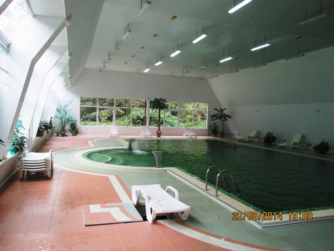 Swimming pool of sanatorium "Syniak"